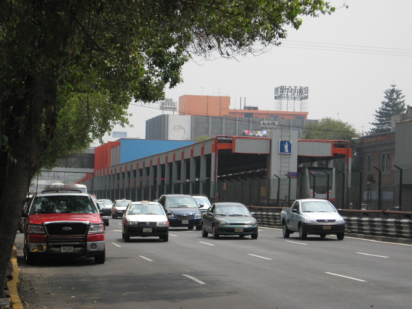 Metro station San Antonio Abad on Line 2 of the Mexico City Metro